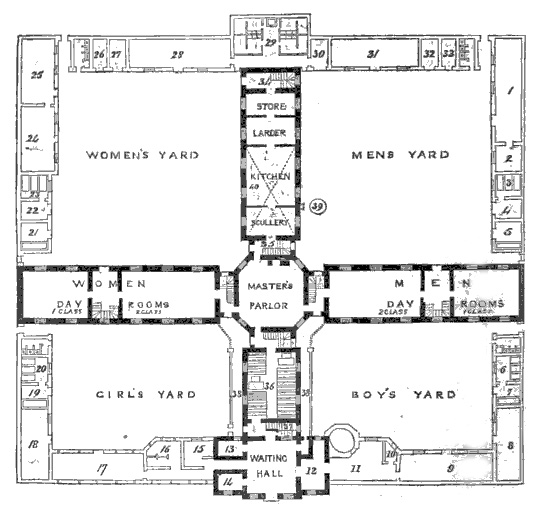 Details Work Room Store Receiving Wards, 3 beds Bath Washing Room Receiving Ward, 3 beds Washing Room Work Room Flour and Mill Room Coals Bakehouse Bread Room Searching Room Porter's Room Store Potatoes Coals Work Room Washing Room Receiving Ward, 3 beds Washing Room Bath Receiving Ward, 3 beds Laundry Wash-house Dead House Refractory Ward Work Room Piggery Slaughter House Work Room Refractory Ward Dead House Women's Stairs to Dining Hall Men's Stairs to ditto Boys' and Girls' School and Dining Room Delivery Passage Well Cellar under ground